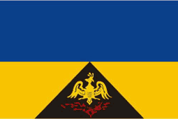 Flag of Shakhty, Rostov Region, Russia